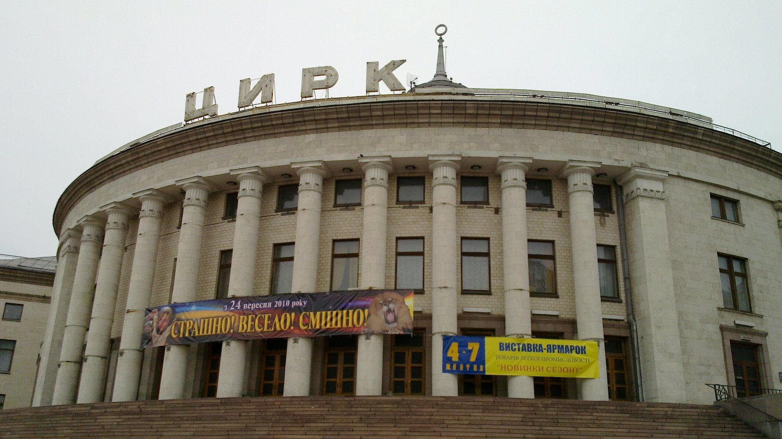 Kyiv Circus building